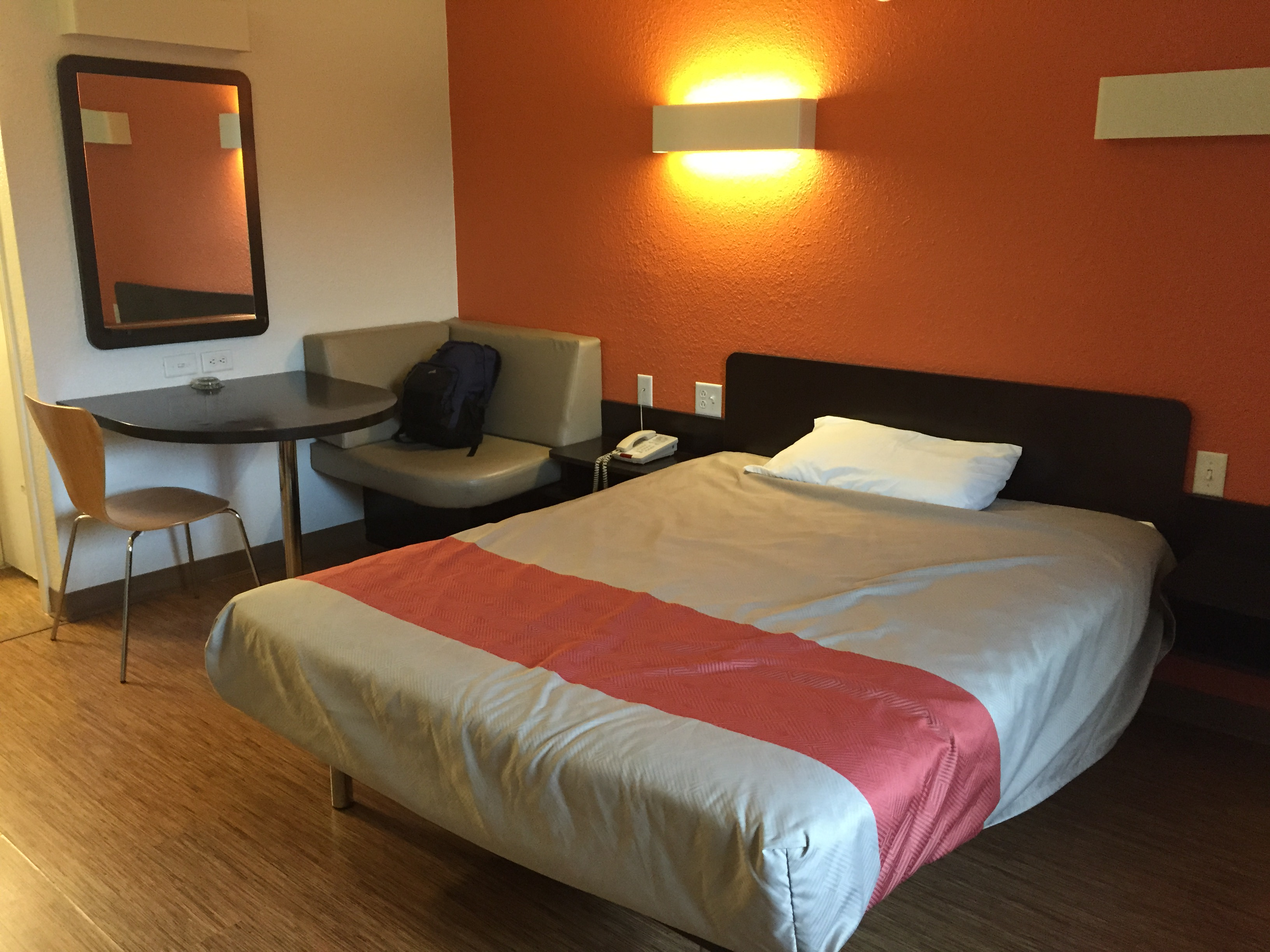 Motel 6 hotel room in Braintree, Massachusetts in 2015